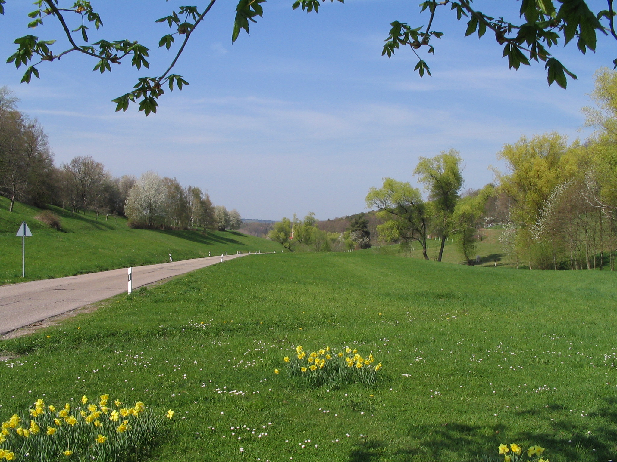 View from Conweiler through the so-called Der schönste Wiesengrund (the most beautiful grassy place) towards Feldrennach (to be recognized by the church gleaming through the trees in the middle), in Straubenhardt, Germany